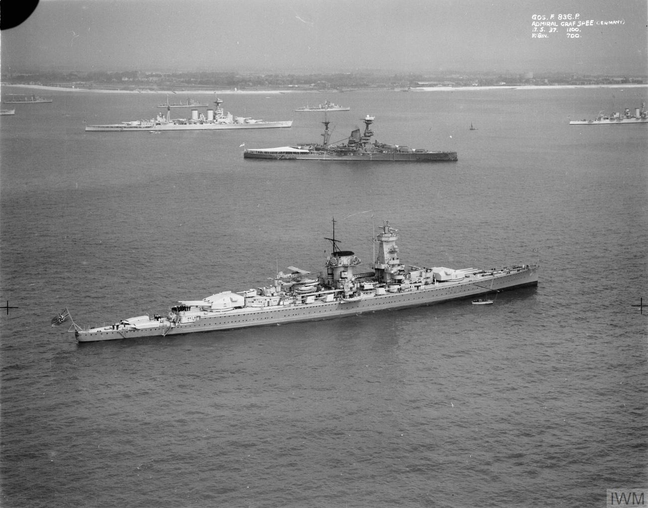 WARSHIPS AT THE SPITHEAD FLEET REVIEW OF 1937, The German heavy cruiser ADMIRAL GRAF SPEE anchored off Spithead for the 1937 Fleet Review. In the background are the battleship HMS RESOLUTION and a RENOWN class battlecruiser.